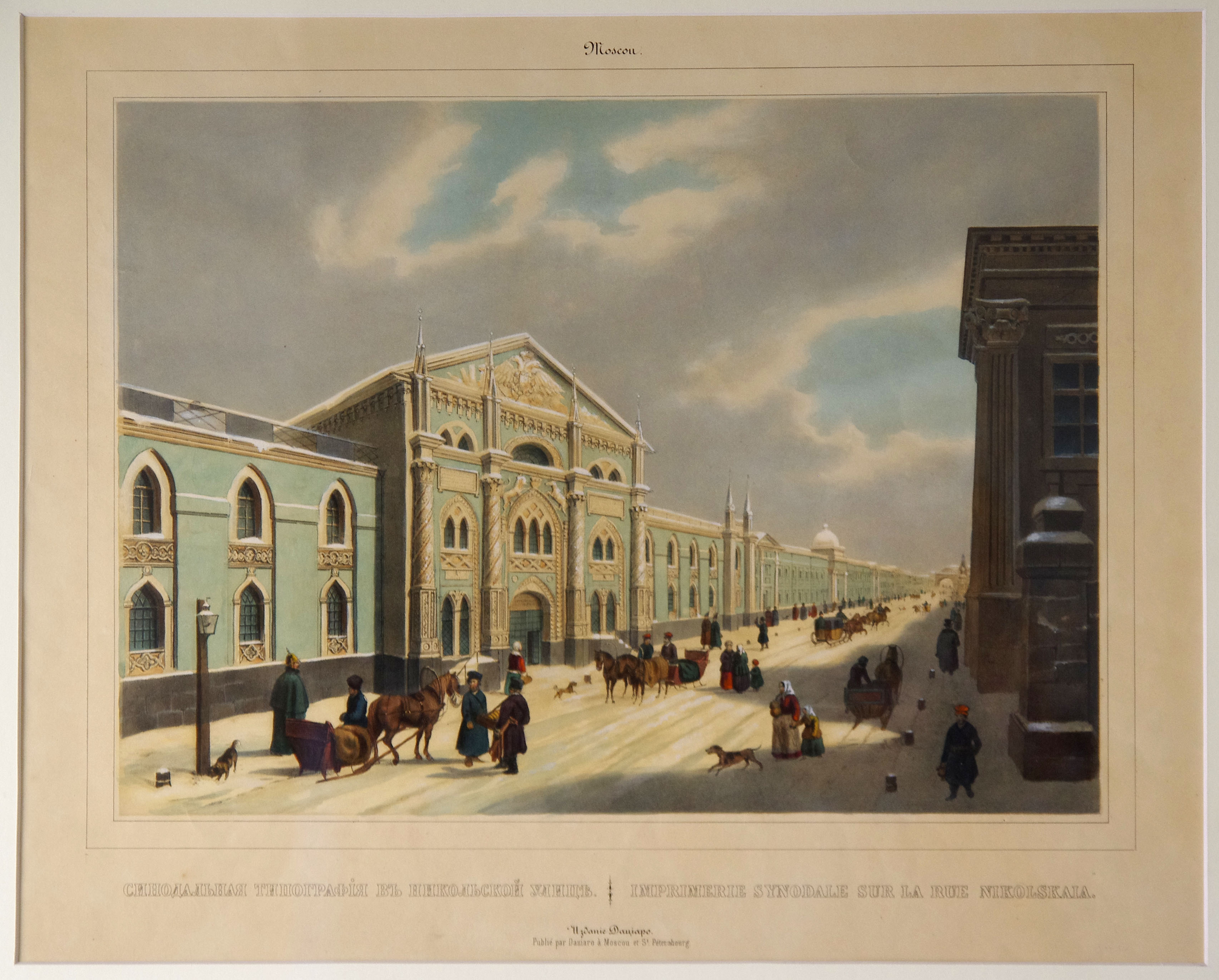 Nikolskaya Street in Moscow. Synodal Printing House